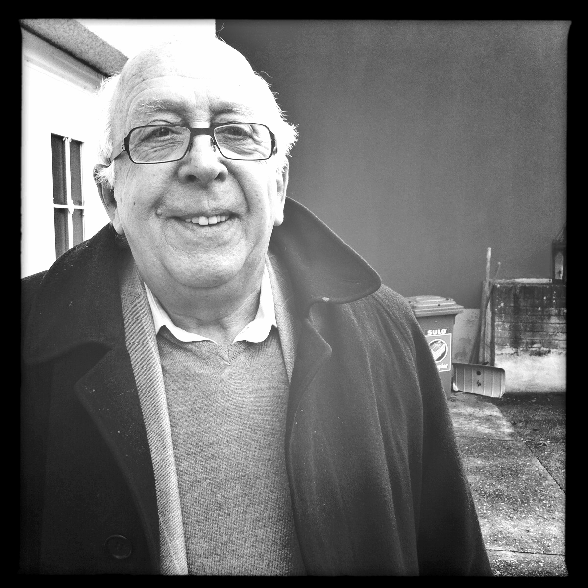 A hipstamatic portrait of Luxembourg actor Fernand Fox by François Besch